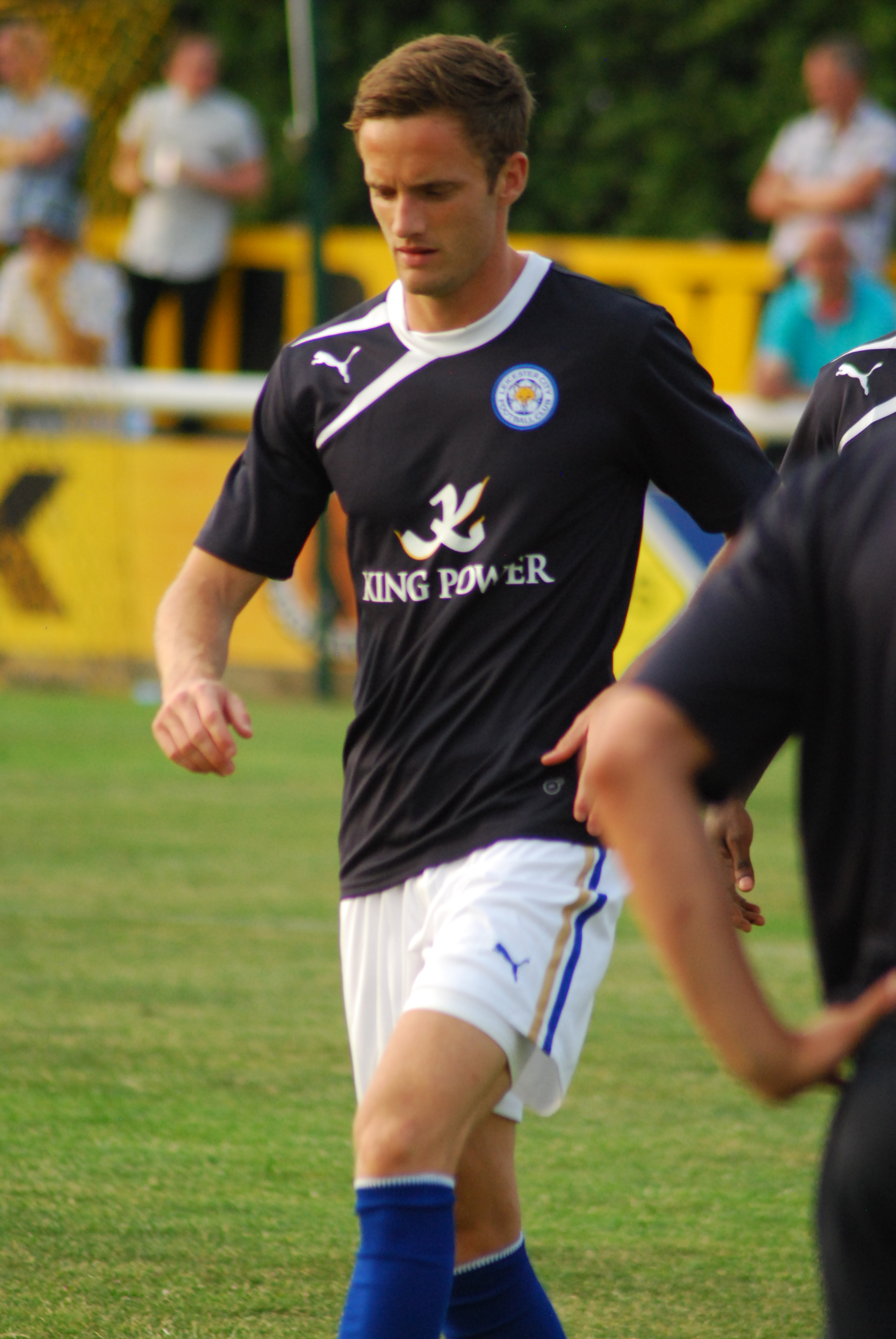 vs Leamington Spa